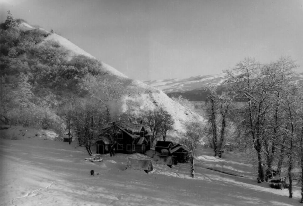 This house burned down only months after it was finished. Audrey was on watch that night but could not stop the fire that started in the ceiling due to a hot stove pipe.